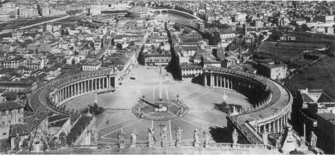 A view from St. Peter's Square towards the "Spina dei Borghi" neigborhood, whose site is, since 1937, occupied by the Via della Conciliazione.